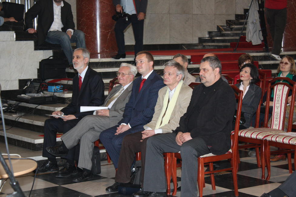 Milan Šipka, Bojan Pajtić and Jovan Ćirilov